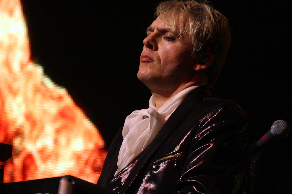 Duran Duran Rock Sydney Entertainment Centre, Australia